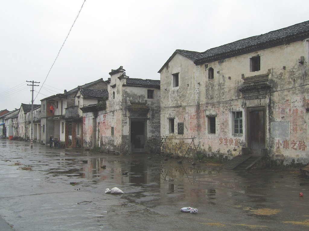 江南农村的古老房子 (brightness corrected)